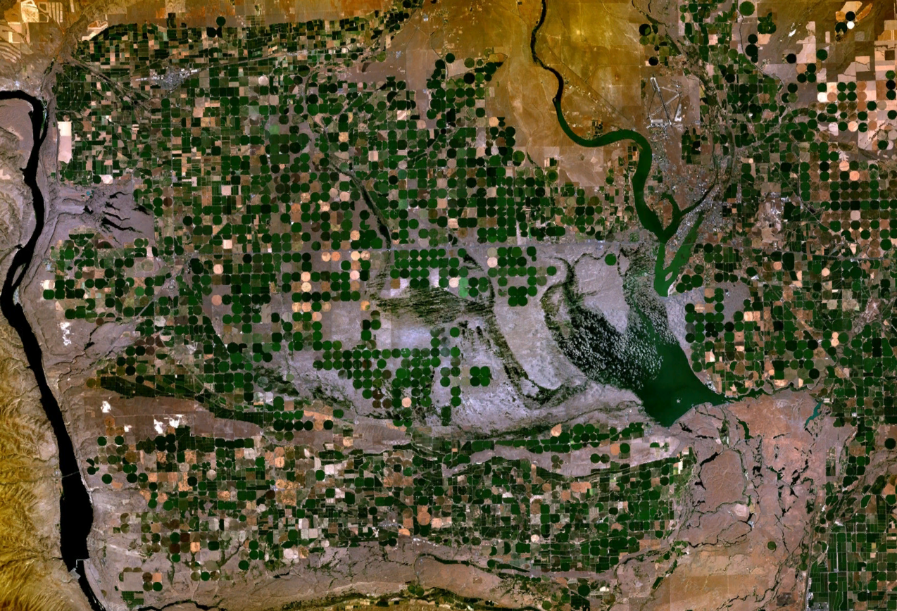 Satellite Image of the area surrounding Potholes Reservoir